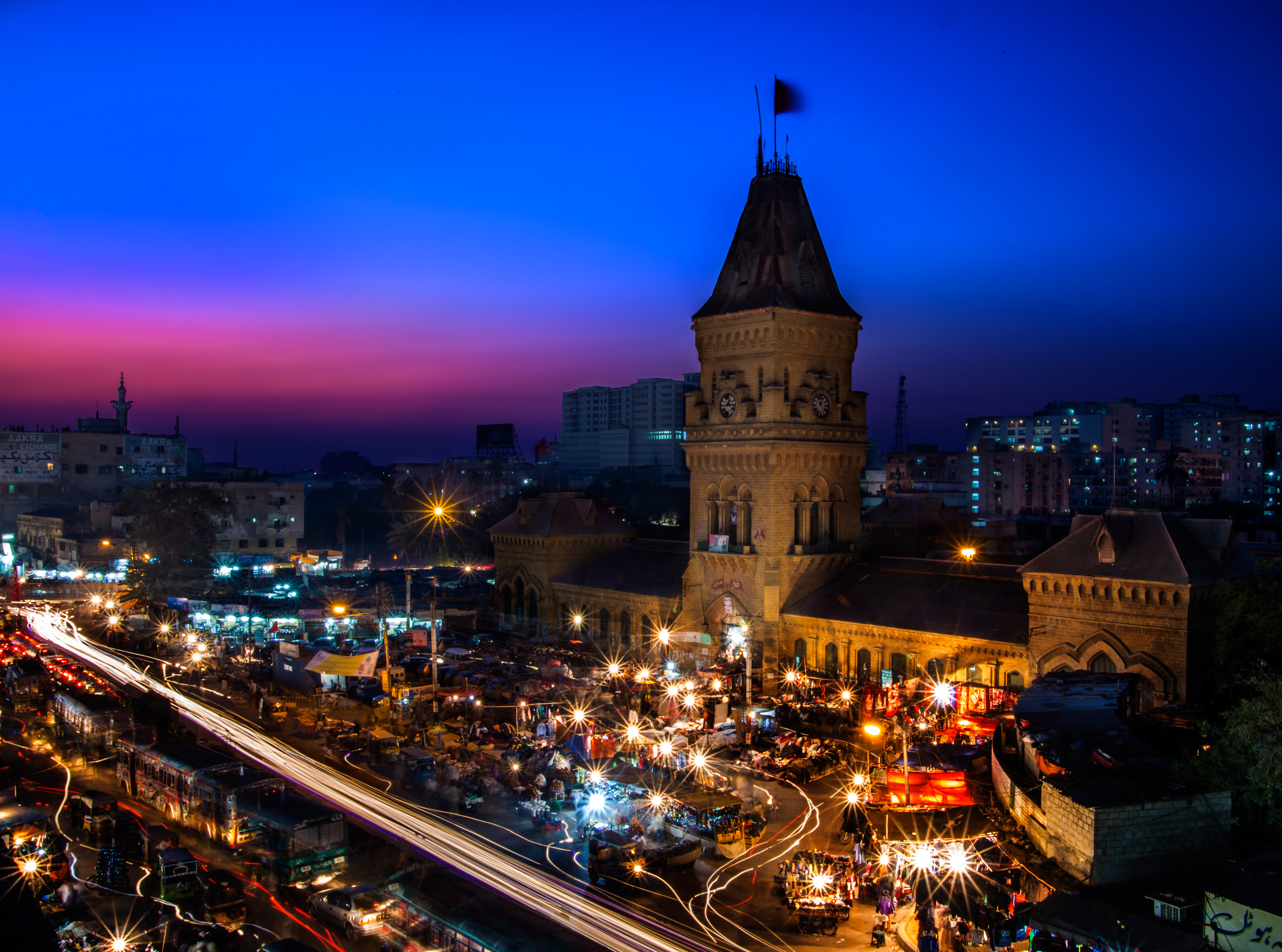 A long exposure of Empress Market taken at sunset. This is a photo of a monument in Pakistan identified as the SD-P-175